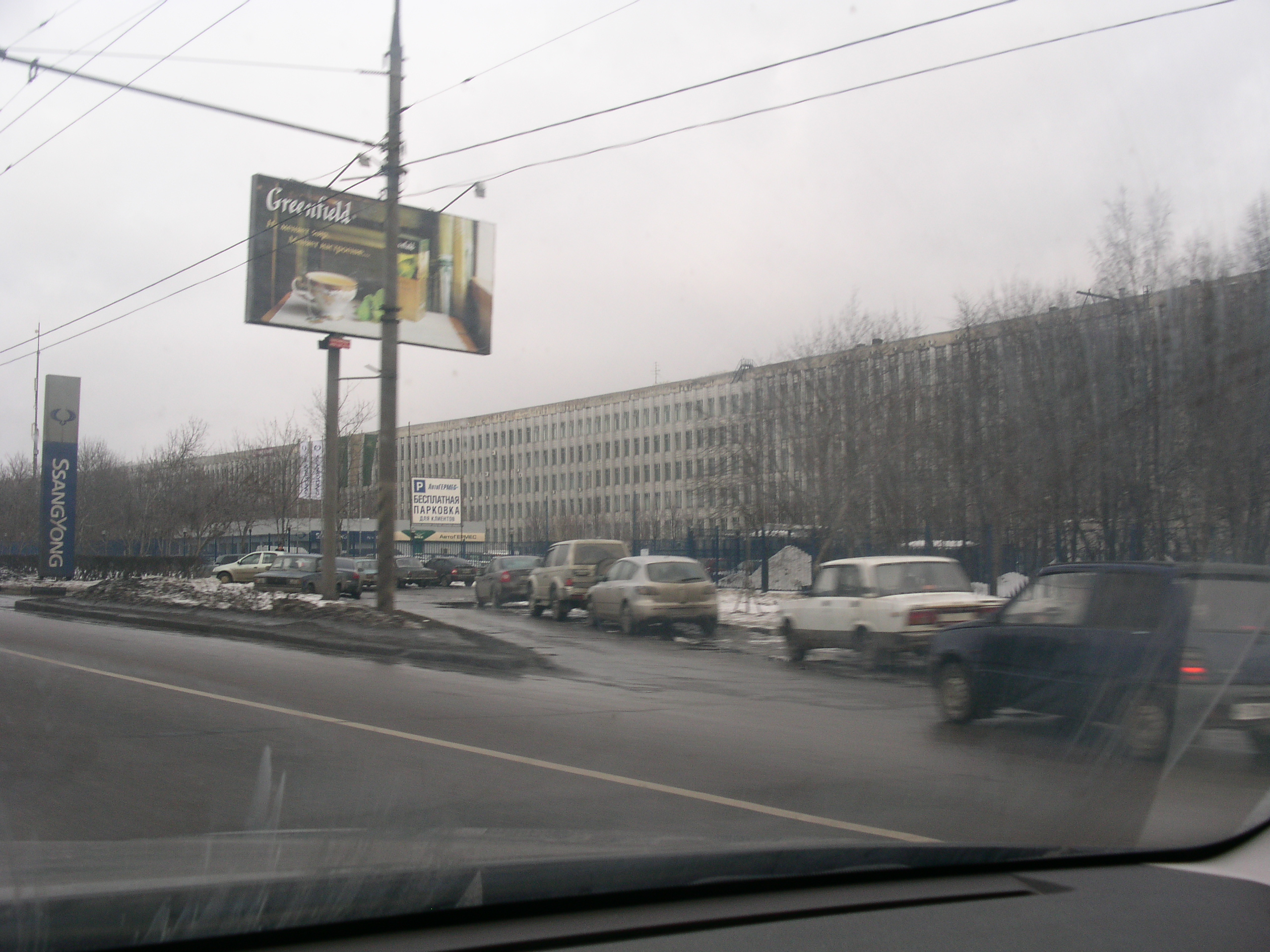 NII Argon (NICEVT) building at 125 Warsawskoye Avenue is the longest building in Moscow , Russia (735.8 m).